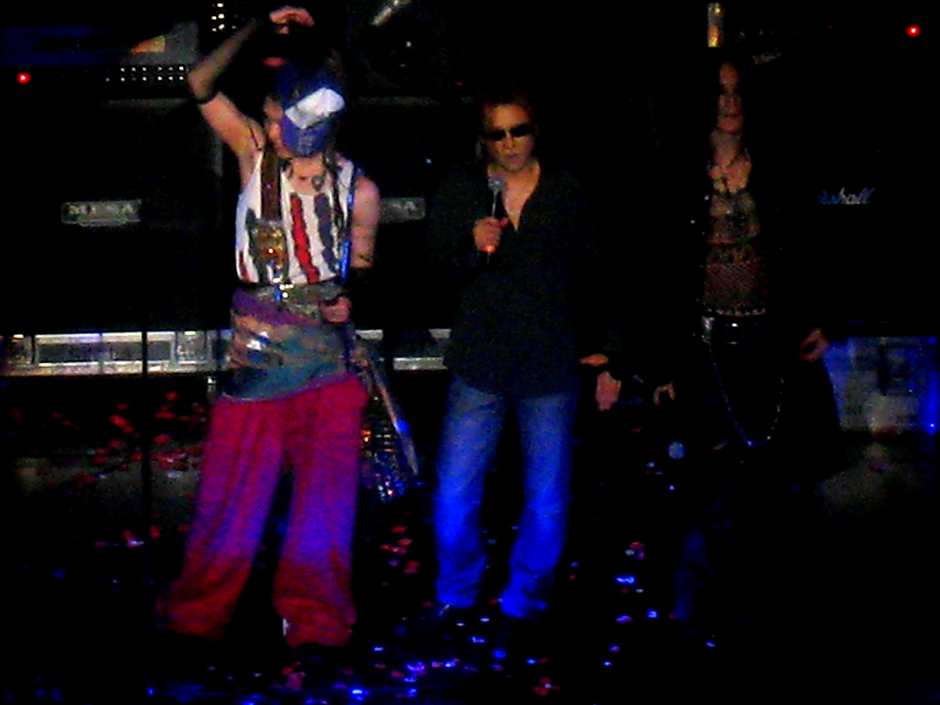 nice pits @ jrock revolution - the wiltern theatre